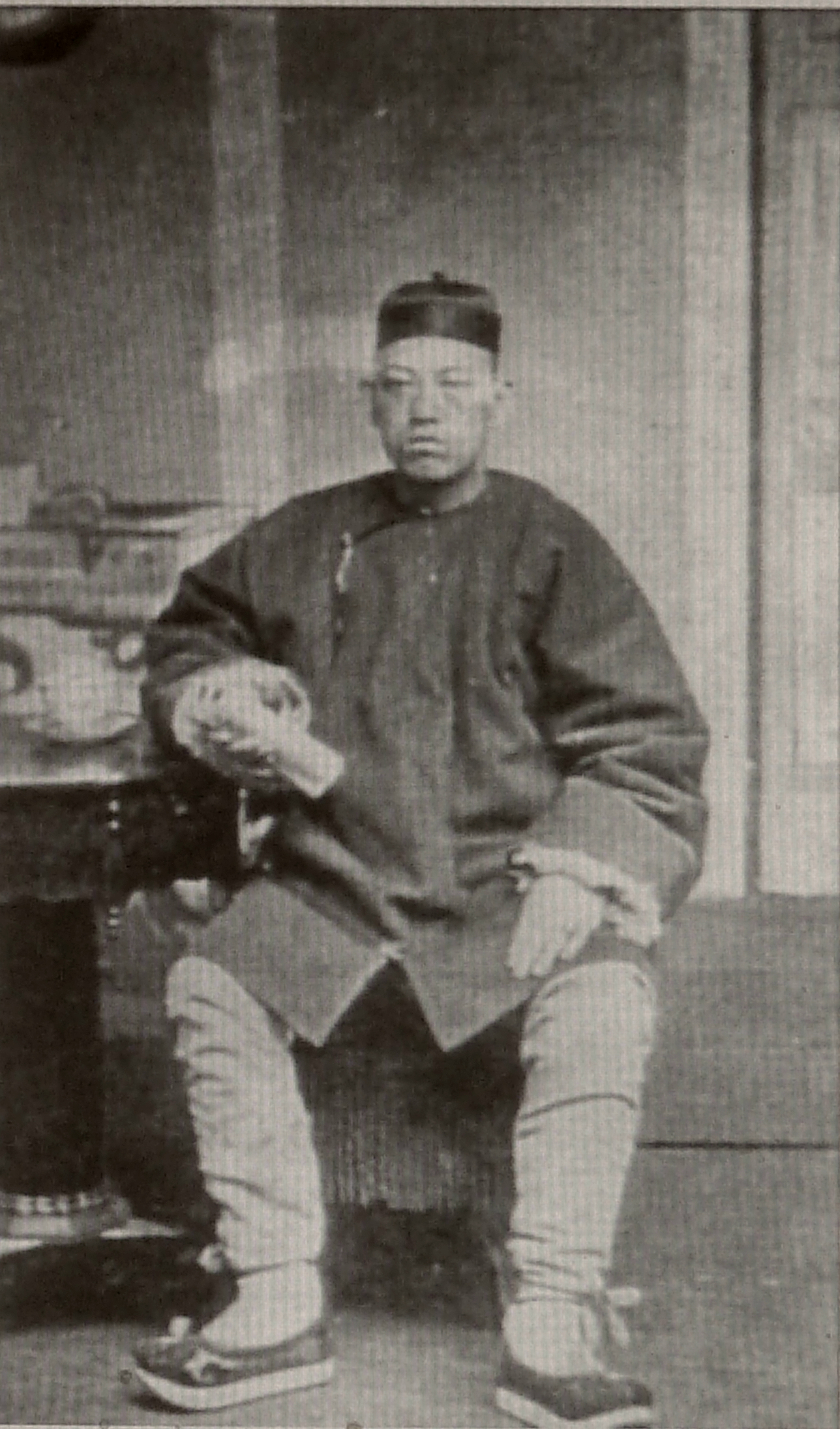 1870s photograph of a Chinese worker at the Beaver Falls Cutlery Company, Pennsylvania. Chinese workers were brought in following the labor dispute of 1872, and they remained there for five years.